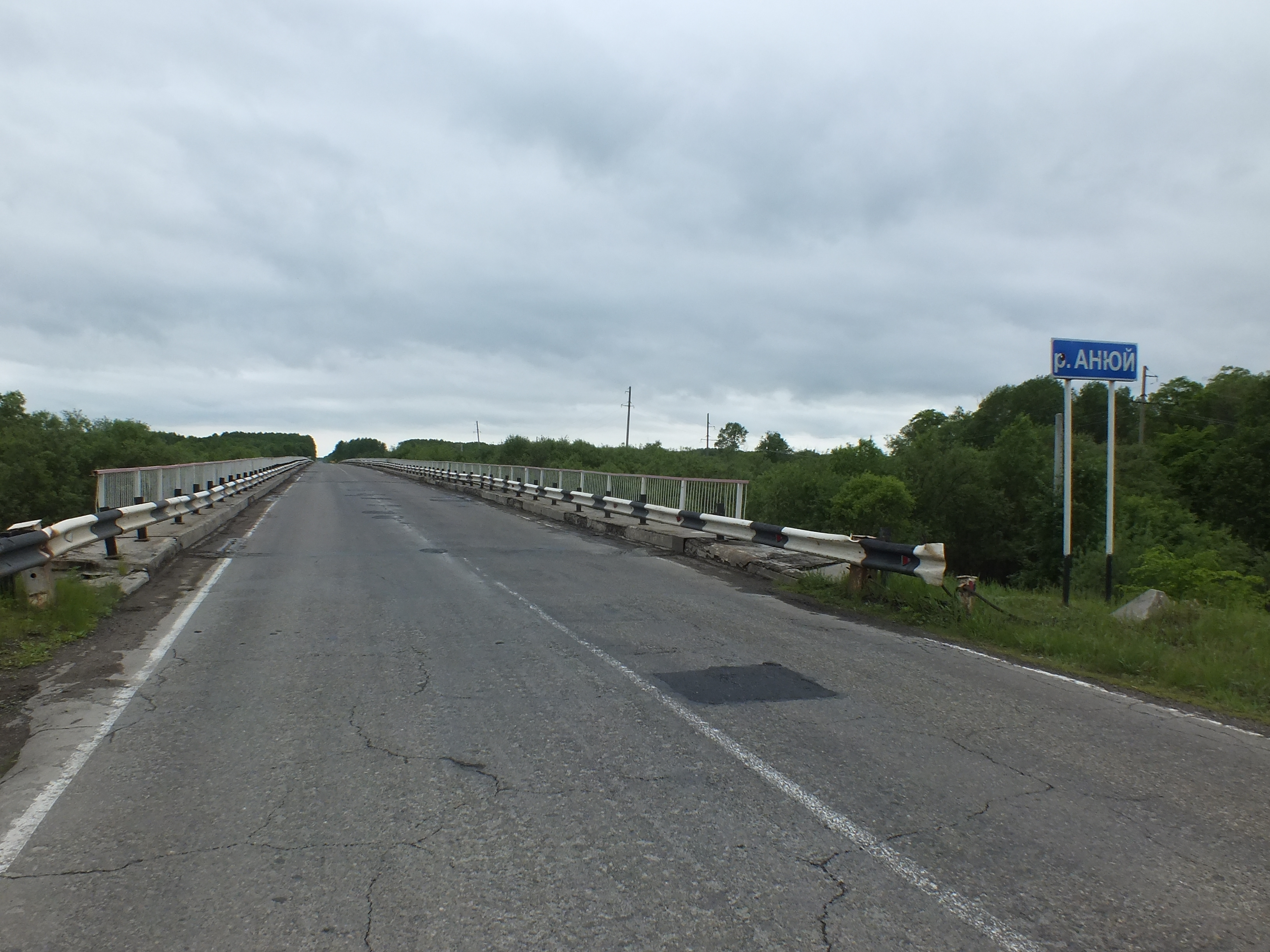 Anyuy River